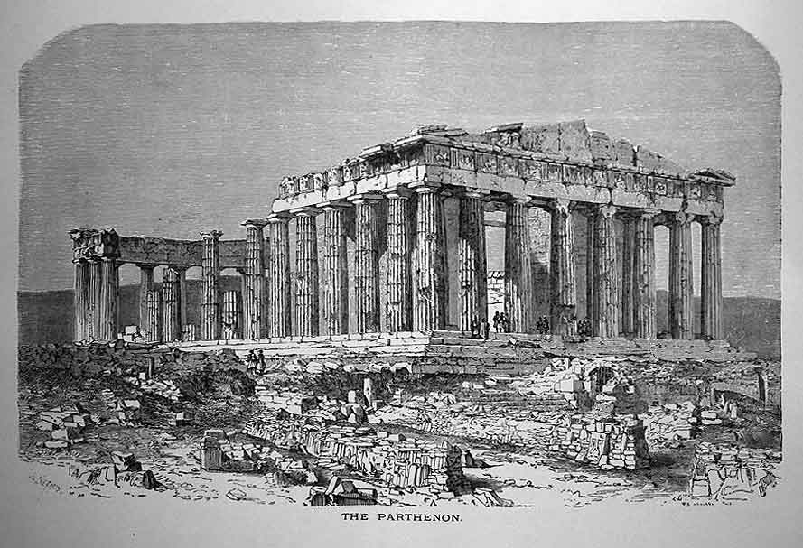 Book Illustration from the "Voyages and travels, or, Scenes in many lands : with eight hundred and fifty illustrations on wood and steel of views from all parts of the world, comprising mountains, lakes, rivers, palaces, cathedrals, castles, abbeys, and ruins, with original descriptions by the best authors". Edited by Leo de Colange. — Boston E. W. Walkers & Co, 1887.